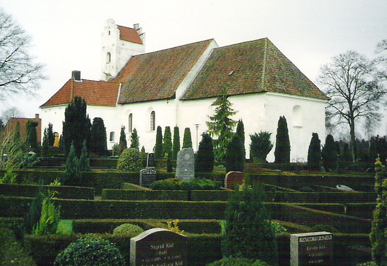 Feldballe Church